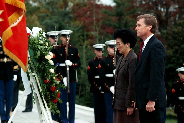 Vice President Dan Quayle and President Corizon Aquino of the Phillippines participate in the Veterans' Day Service at Arlington National Cemetery, 10 Nov 89